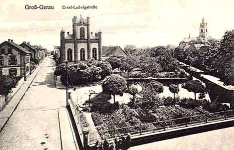 Gross-Gerau synagogue(Hesse - Germany), built in 1892, destroyed by the nazis in 1938